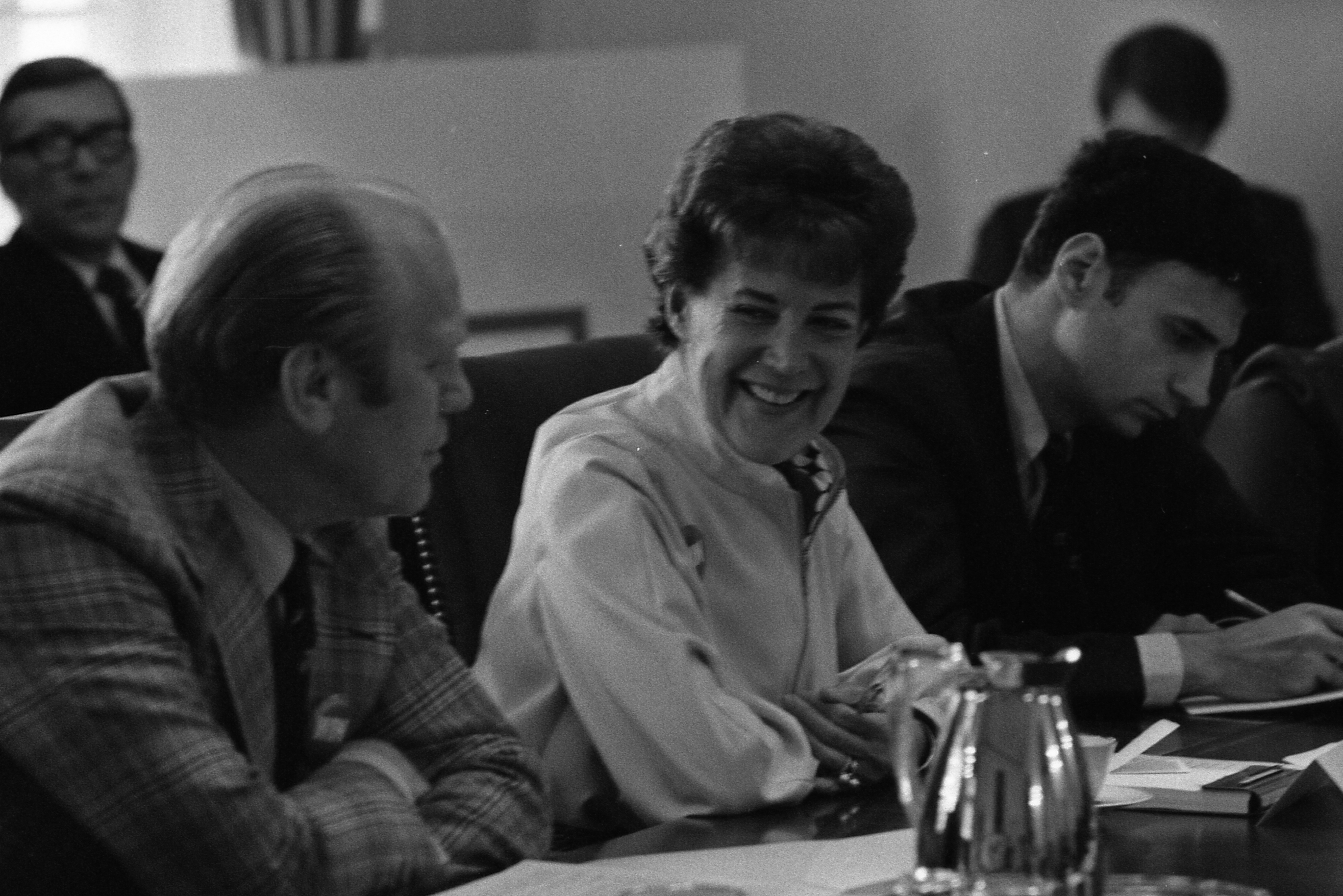 President Gerald R. Ford, Sylvia Porter, Ralph Nader, and Others at a Meeting of the Citizens Action Committee to End Inflation - 12 OCT 1974